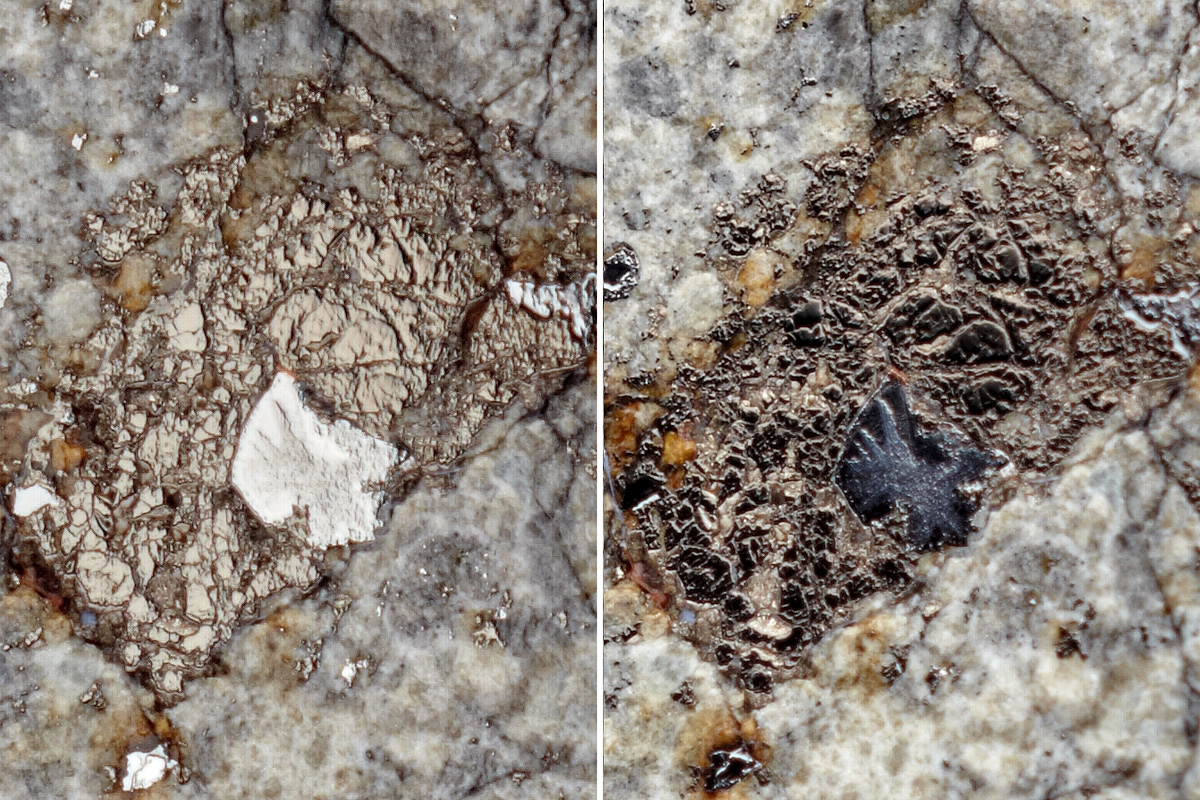 Macro photo of a piece of Chebarkul meteorite made by Ekaterinburg photographer Pavel Maltsev at Ural Federal University.